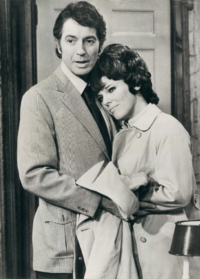 Farley Granger & Jacqueline Scott in the TV series CBS Playhouse, episode The Day Before Sunday - publicity still (cropped)